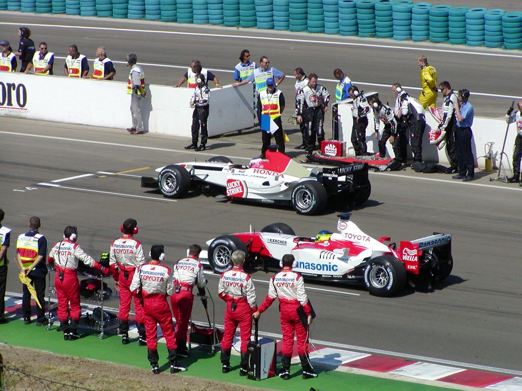 BAR and Toyota starting warm up lap at the 2003 Hungarian Grand Prix.